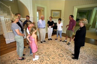 Foyer at One Observatory Circle, official home of the Vice President of the United States. Original description: Lynne Cheney gives a tour of the Naval Observatory to relatives of former Vice President Walter Mondale. Walter Mondale was the first full-time resident of the Naval Observatory in 1977.